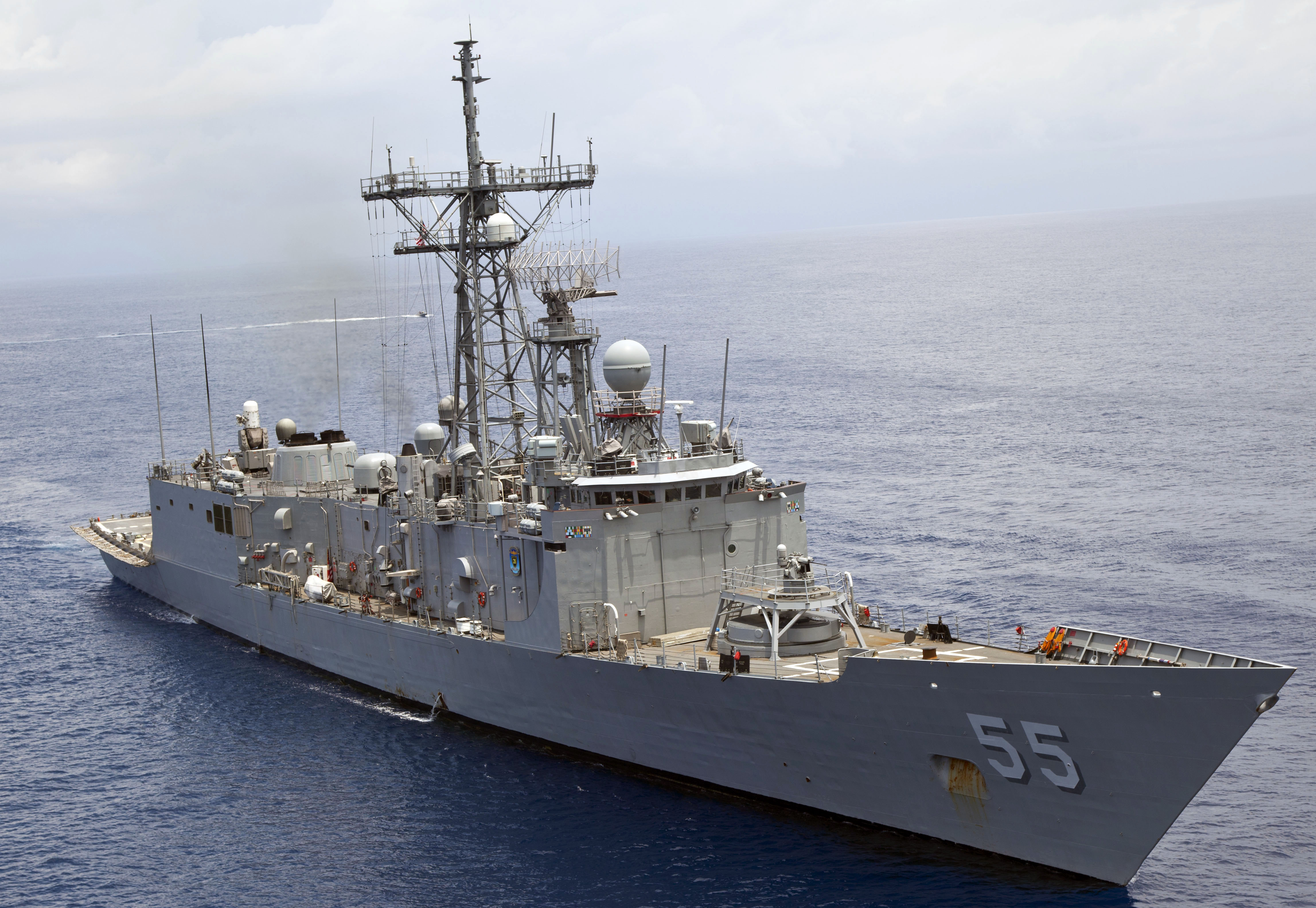 Caribbean Sea: An aerial photo of the guided-missile frigate USS Elrod (FFG-55) taken April 21, 2012.